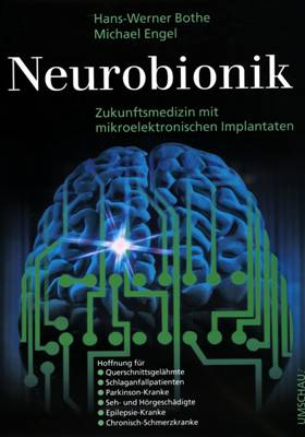 Neurobionics illustrating picture